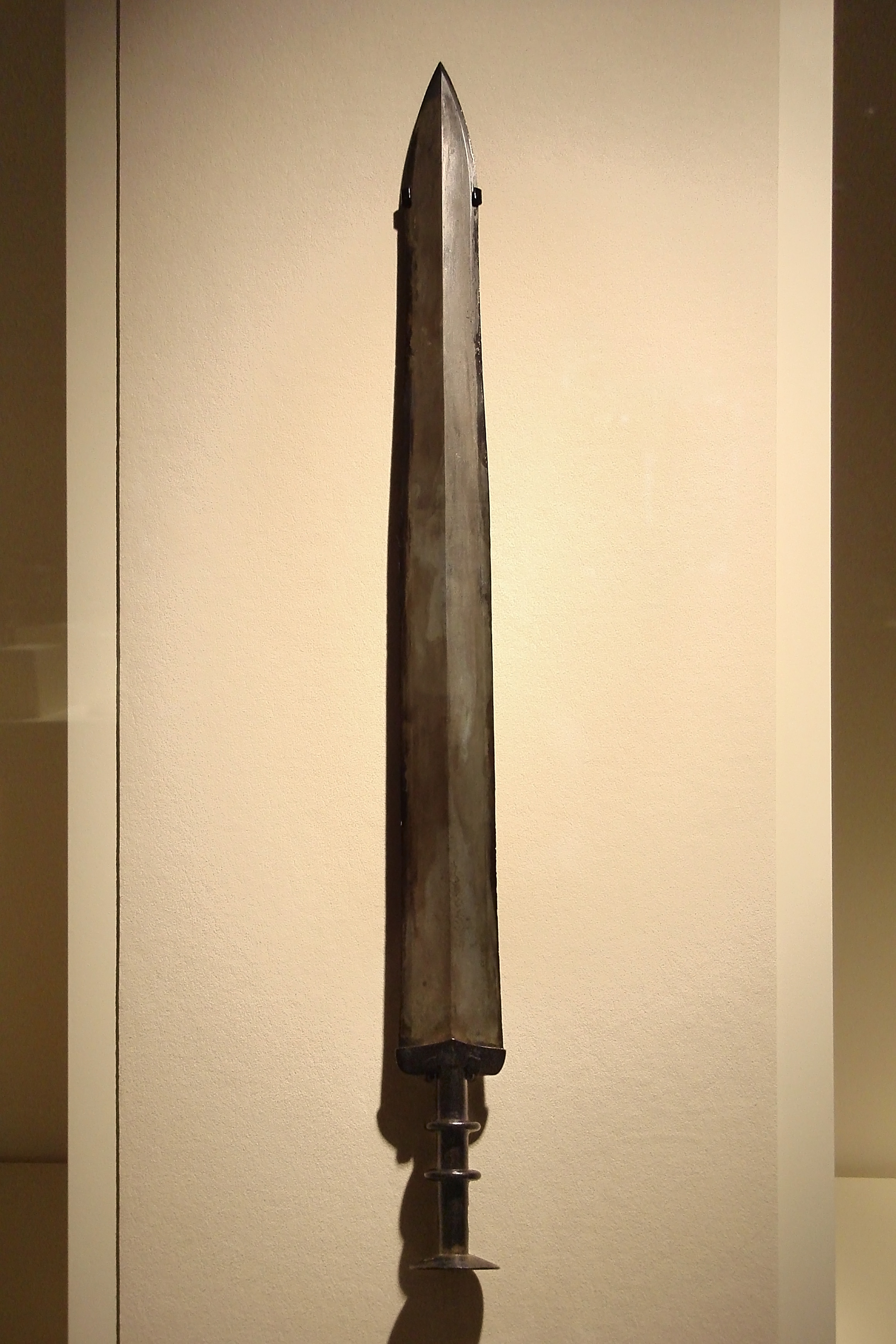 Bronze Sword. Exhibition "Treasures of China", Canadian Museum of Civilization, 2007. Eastern Zhou Dynasty, Warring States Period (475 - 221 B.C.) Excavated at Changsa, Hunan Province Forged of an alloy of copper and tin, this sword features a column-shaped handle with two hoops; the stem was originally covered with ropes or silk for handling. There is a sword guard between the body of the sword and handle, and a central ridge runs between the two blades. Both blades and the tip are still extremely sharp.